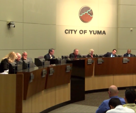 City Council of Yuma,AZ, USA